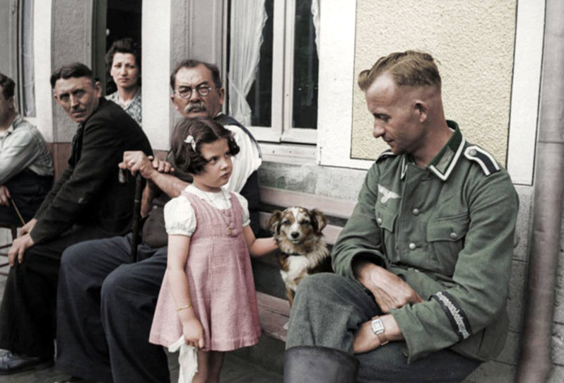 A German soldier form a Propagandakompanie (Propaganda company) on a bench together with civilians in a town alongside the river L'Allier during (or after) the battle for France.Depicted place FranceDate June 1940date QS:P571,+1940-06-00T00:00:00Z/10Collection German Federal Archives Native nameDas BundesarchivParent institutionFederal Government Commissioner for Culture and Media LocationKoblenz (headquarters)Coordinates50° 20′ 32.71″ N, 7° 34′ 21.22″ E Established1946 Web page control : Q685753 VIAF: 137346469 ISNI: 0000 0004 0555 2728 LCCN: n92025526 NLA: 36455393 Open Library: OL55798A WorldCat institution QS:P195,Q685753Current location Propagandakompanien der Wehrmacht - Heer und Luftwaffe (Bild 101 I)Accession number Bild 101I-056-1615-17A Source This image was provided to Wikimedia Commons by the German Federal Archive (Deutsches Bundesarchiv) as part of a cooperation project. The German Federal Archive guarantees an authentic representation only using the originals (negative and/or positive), resp. the digitalization of the originals as provided by the Digital Image Archive. Information added by Wikimedia users.